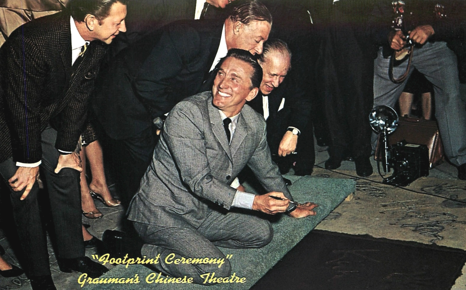 Postcard photo of the Grauman's Chinese Theatre ceremony for Kirk Douglas. Donald O'Connor and George Jessel look on as Douglas signs his name in the wet concrete.